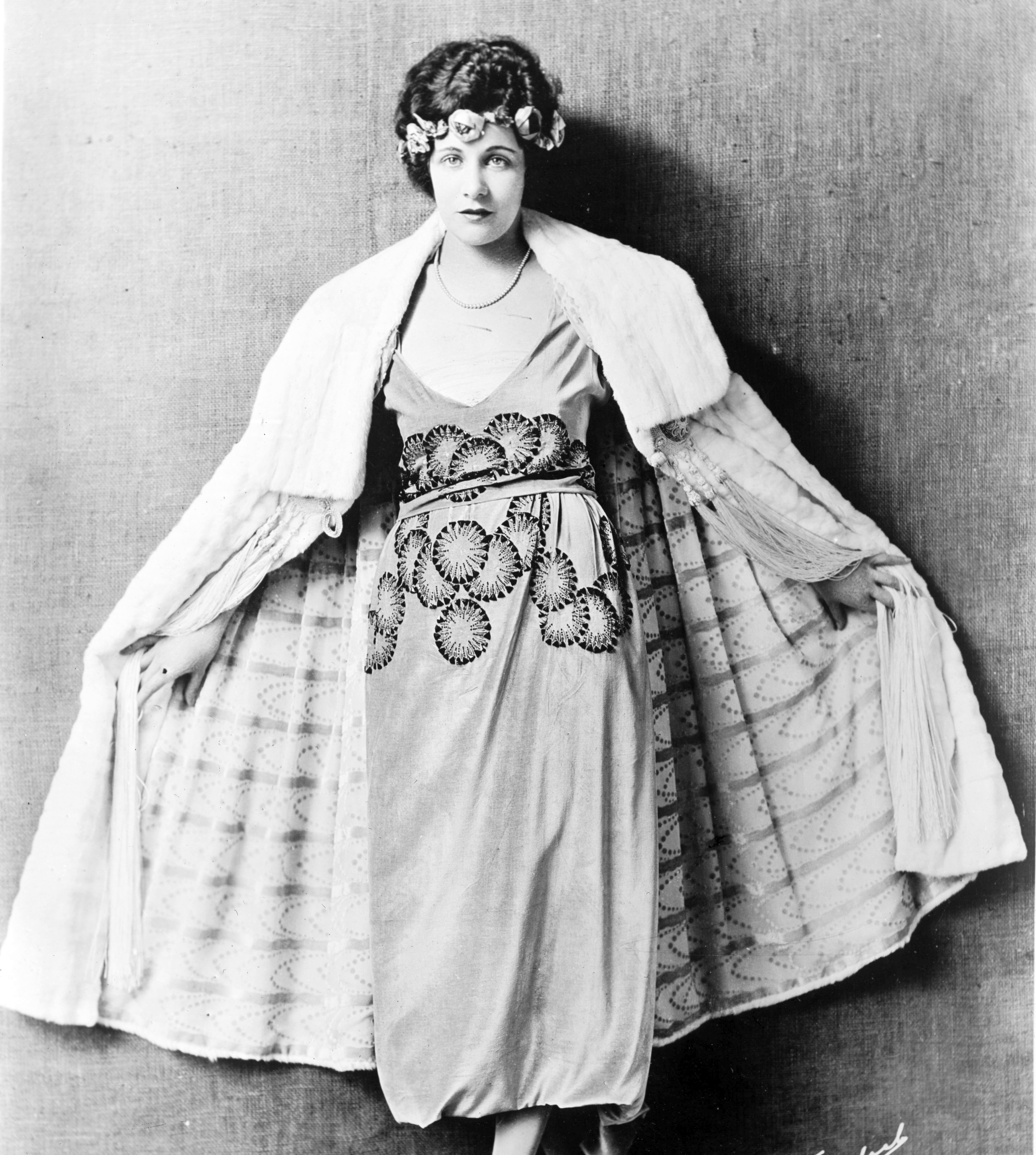 Title: Virginia Valli, evening gown, amber velvet Abstract/medium: 1 negative : glass ; 5 x 7 in. or smaller.